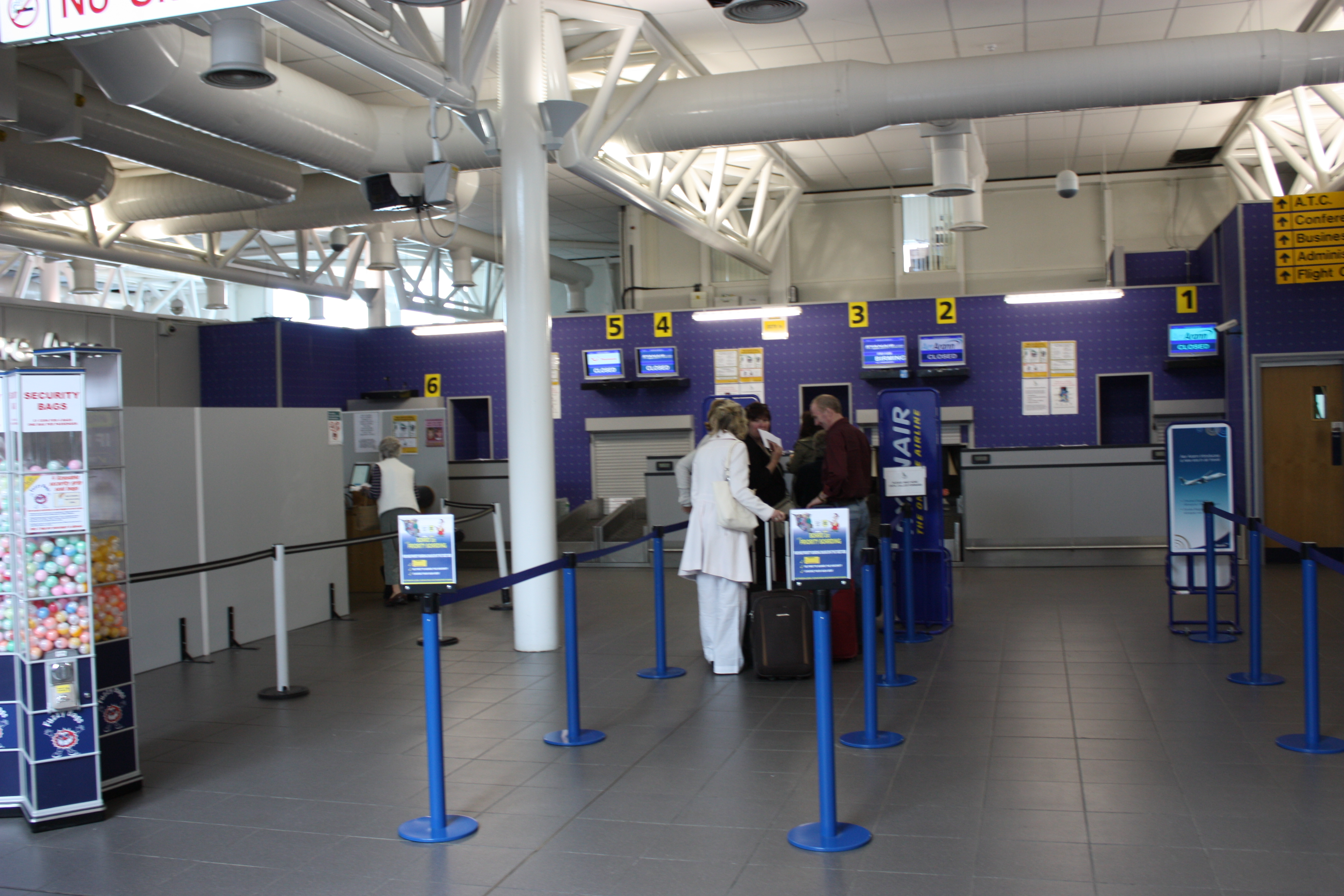 Check-ins, City of Derry Airport, Airport Road, Eglinton, County Londonderry, Northern Ireland, May 2010